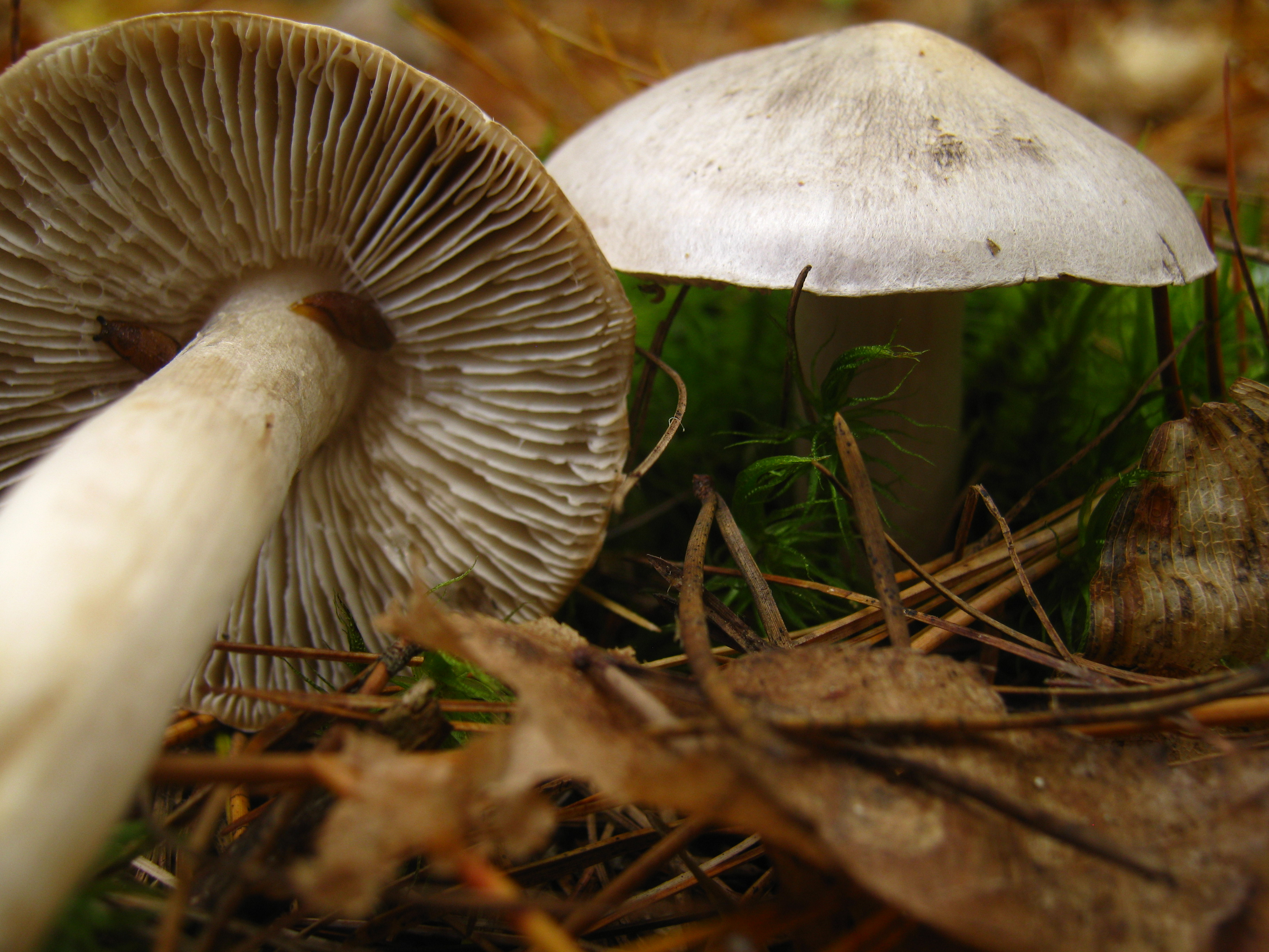 Tricholoma virgatum from a forest near Elgin Street, Pembroke, Ontario, Canada Found in Zone 38. There were three of these grey trichs in one small area.